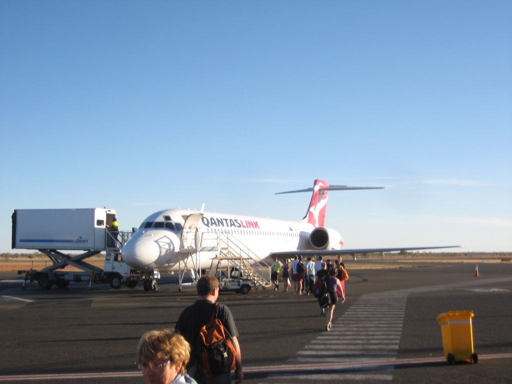 QantasLink 717 at Alice Springs Airport.